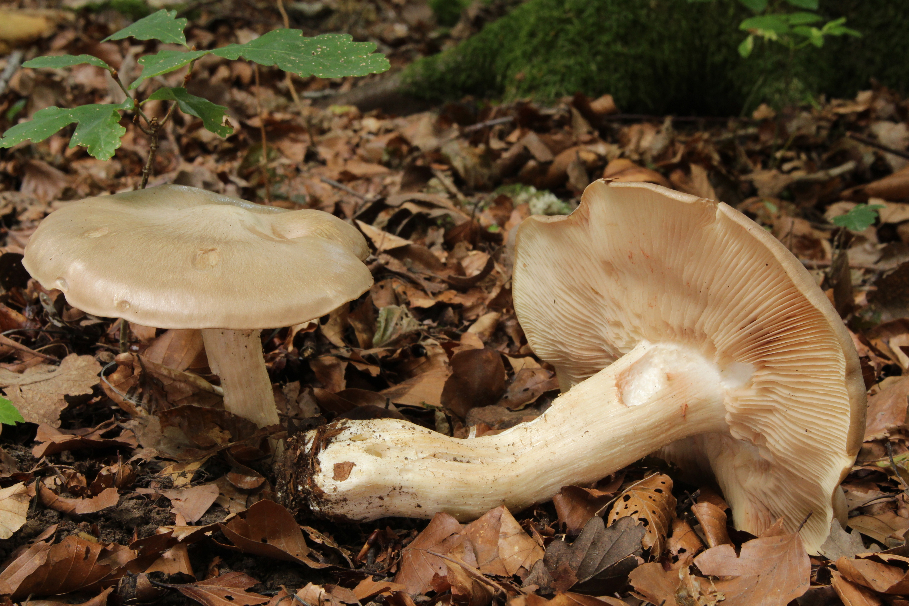 Livid Entoloma, Livid Agaric, Livid Pinkgill, Leaden Entoloma or Lead Poisoner, Entoloma sinuatum, Family: Entolomataceae, Location: Germany, Erbach, Ringingen